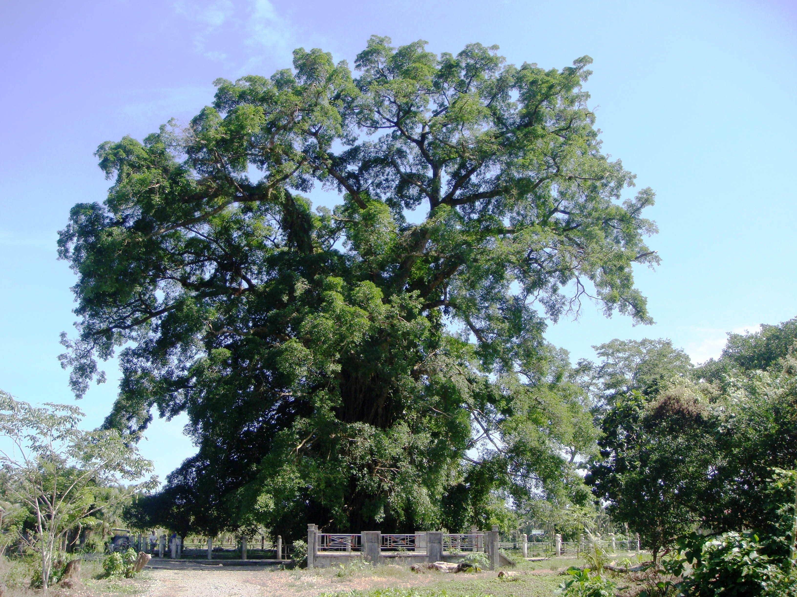 Balete Park's "Millennium Tree" at Quirino, Maria Aurora, Aurora province in the Philippines, is a six-century old Balete tree refuted to be the biggest in Asia.[1]